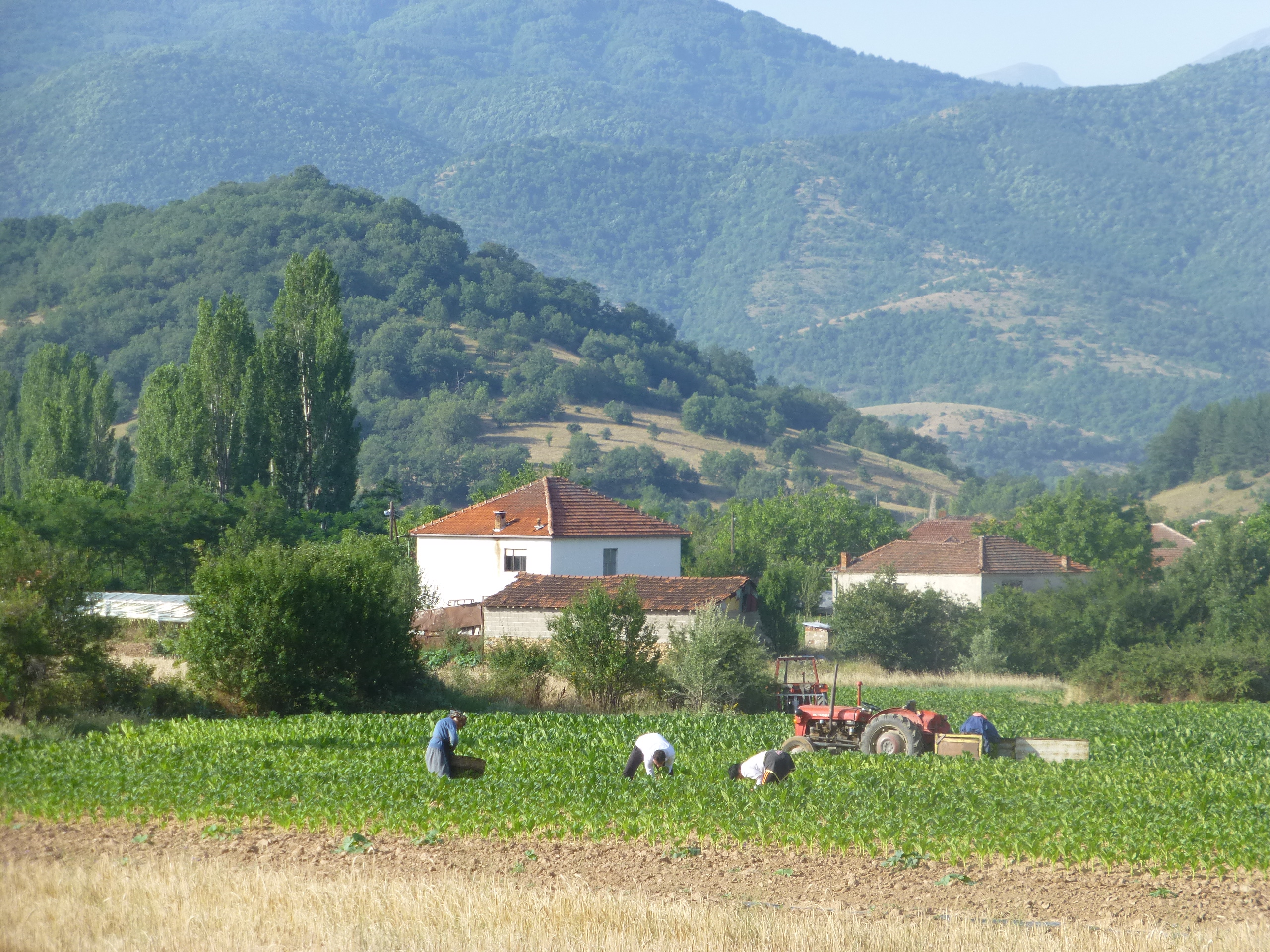 Views from Macedonian Hwy P1305, around Lopatica (between Demir Hisar and Bitola)